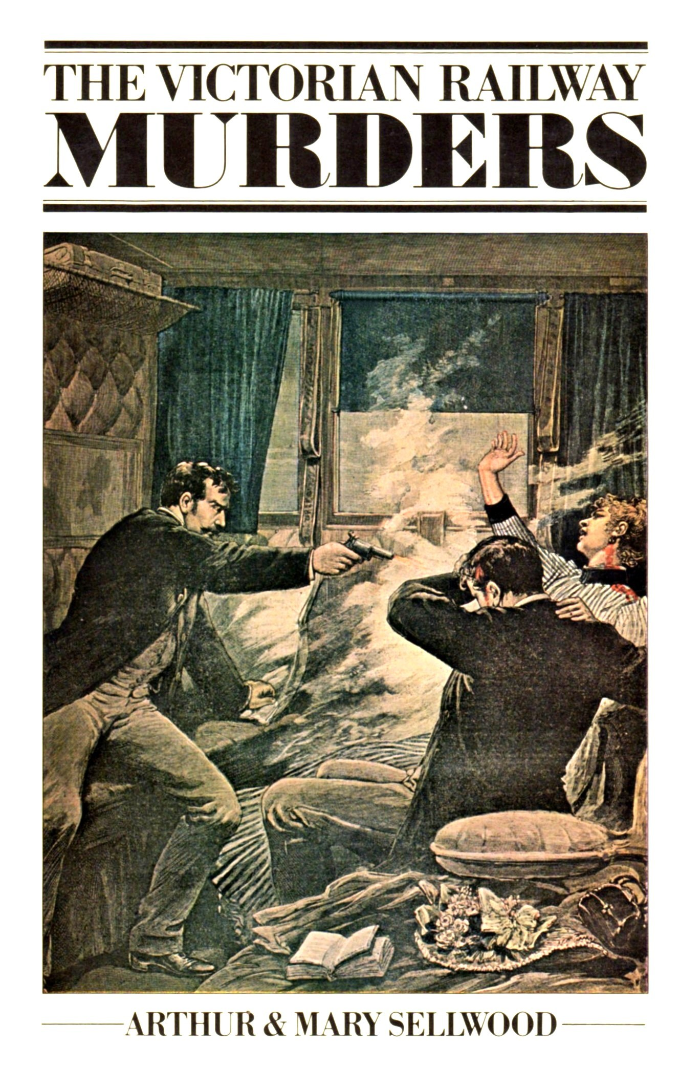 The Victorian Railway Murders cover. L'Affaire de Montmoreau': M. Bruly de Lesdain shoots his wife and a family friend, M. Delboeuf, on board a train, accusing the pair of adultery (they are not injured fatally). Source: Illustration in 'Le Petit Journal', 16th May 1891.